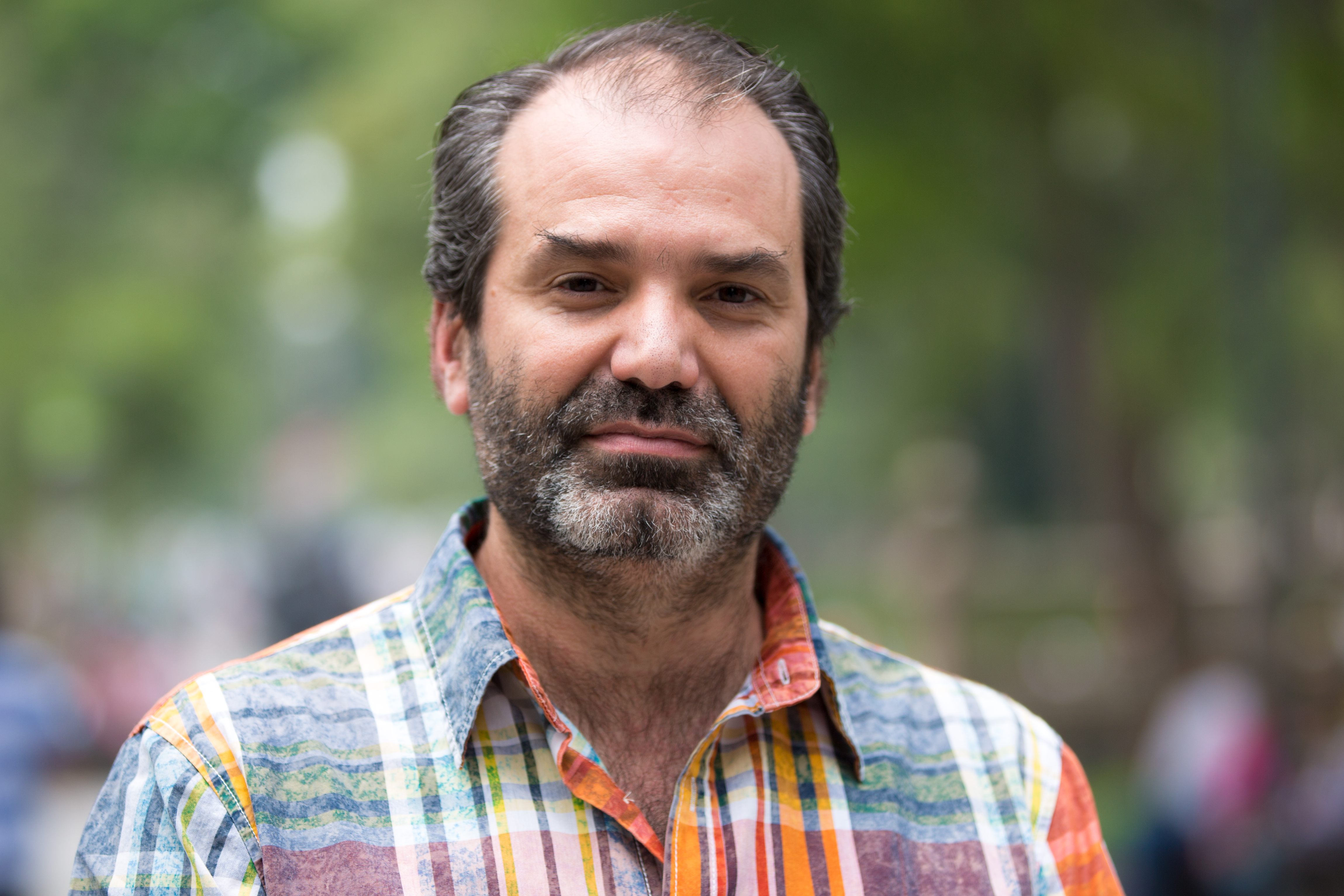 Patricio Lorente - Wikimedia Foundation Board